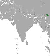 Muli Pika (Ochotona muliensis) range